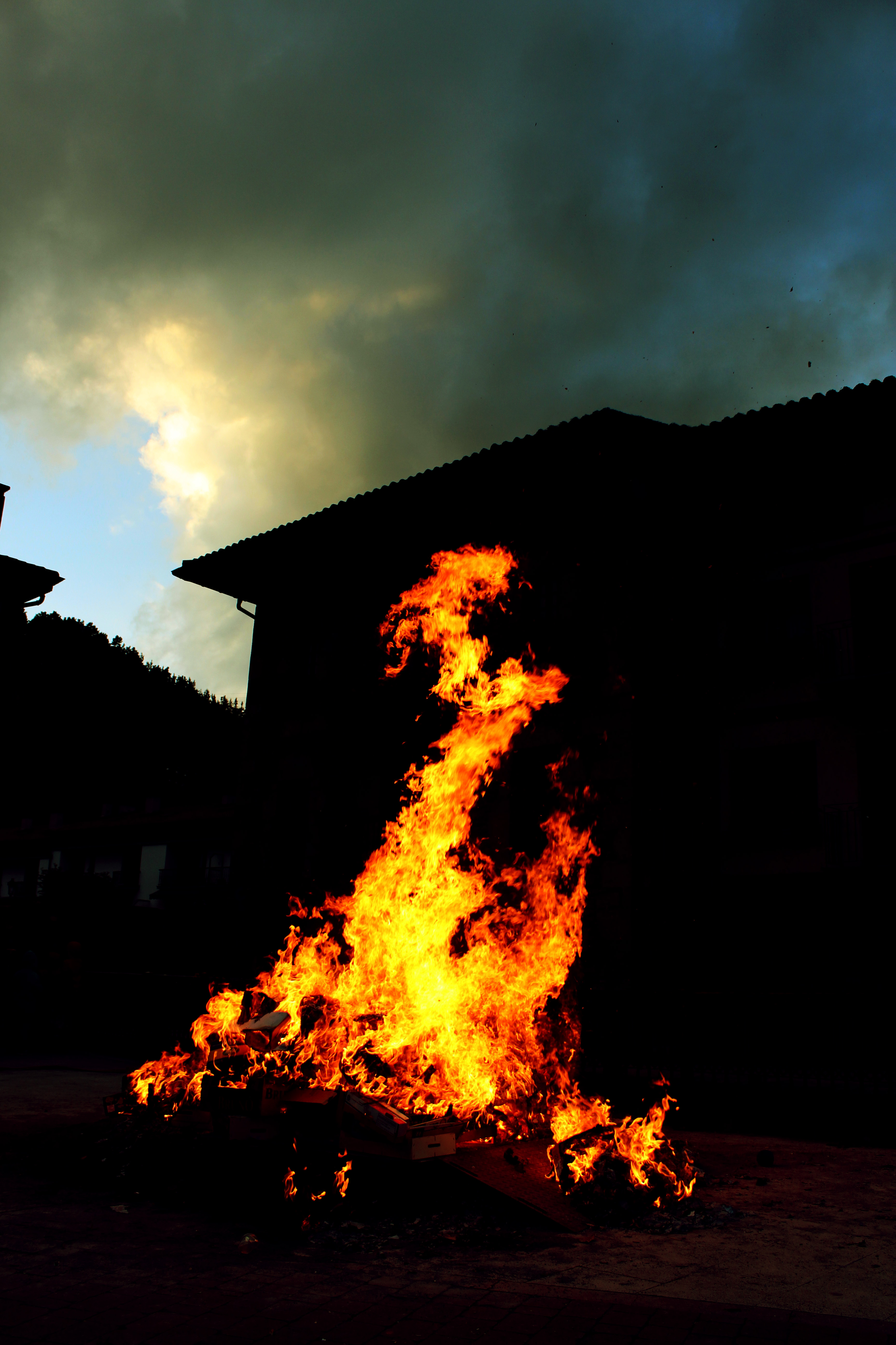 Basque Summer Solstice